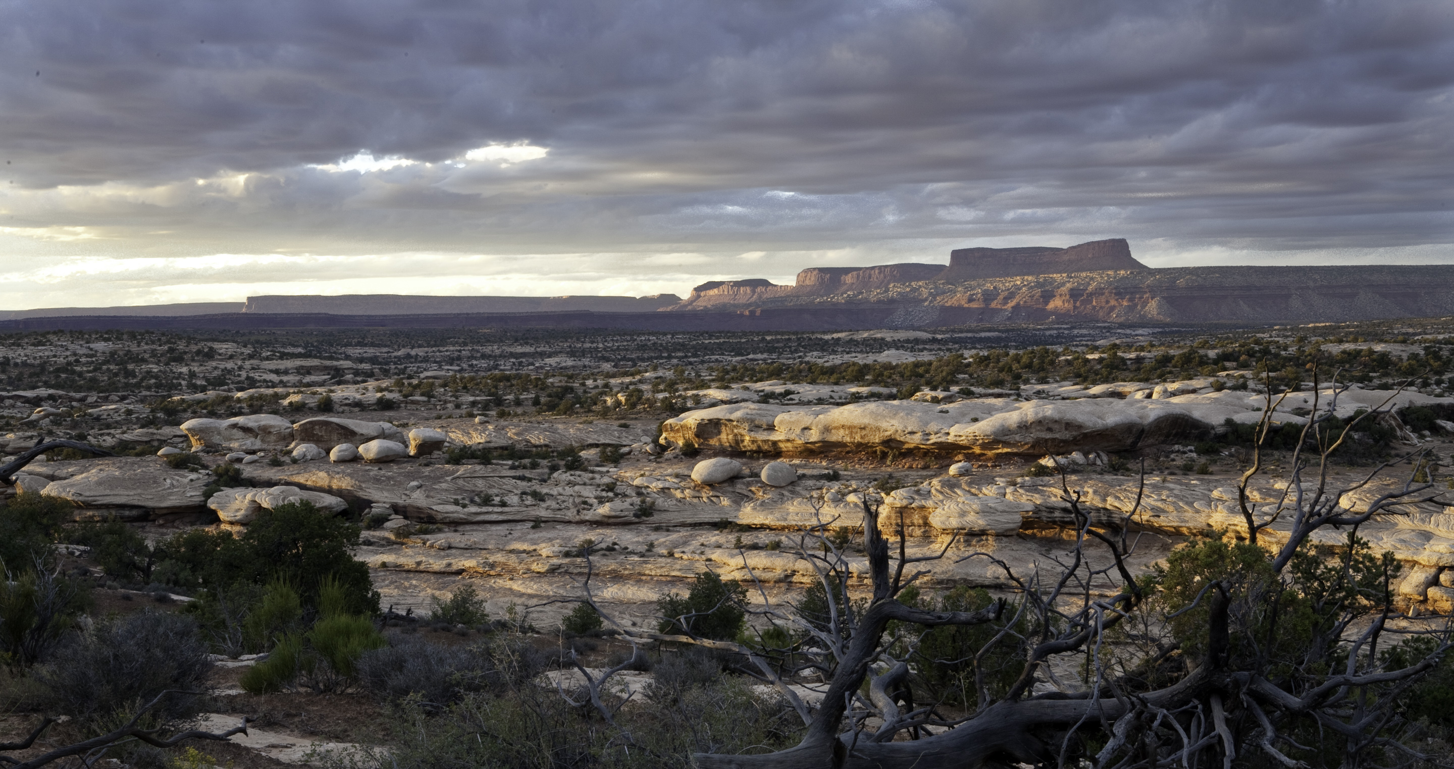 Bears Ears National Monument